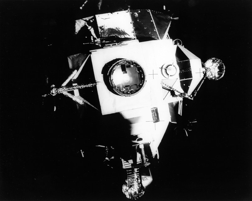 The Apollo 13 Lunar Module Aquarius is jettisoned above the Earth after serving as a lifeboat for four days. It eventually reentered Earth's atmosphere over Fiji and burned up.